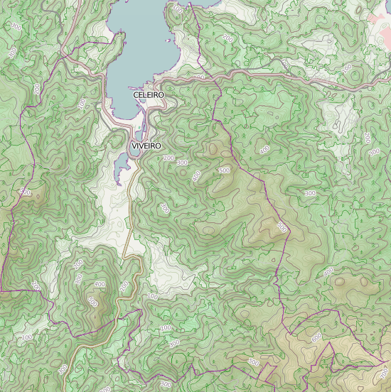 Openstreetmap This map of Viveiro was created from OpenStreetMap project data, collected by the community. This map may be incomplete, and may contain errors. Don't rely solely on it for navigation.